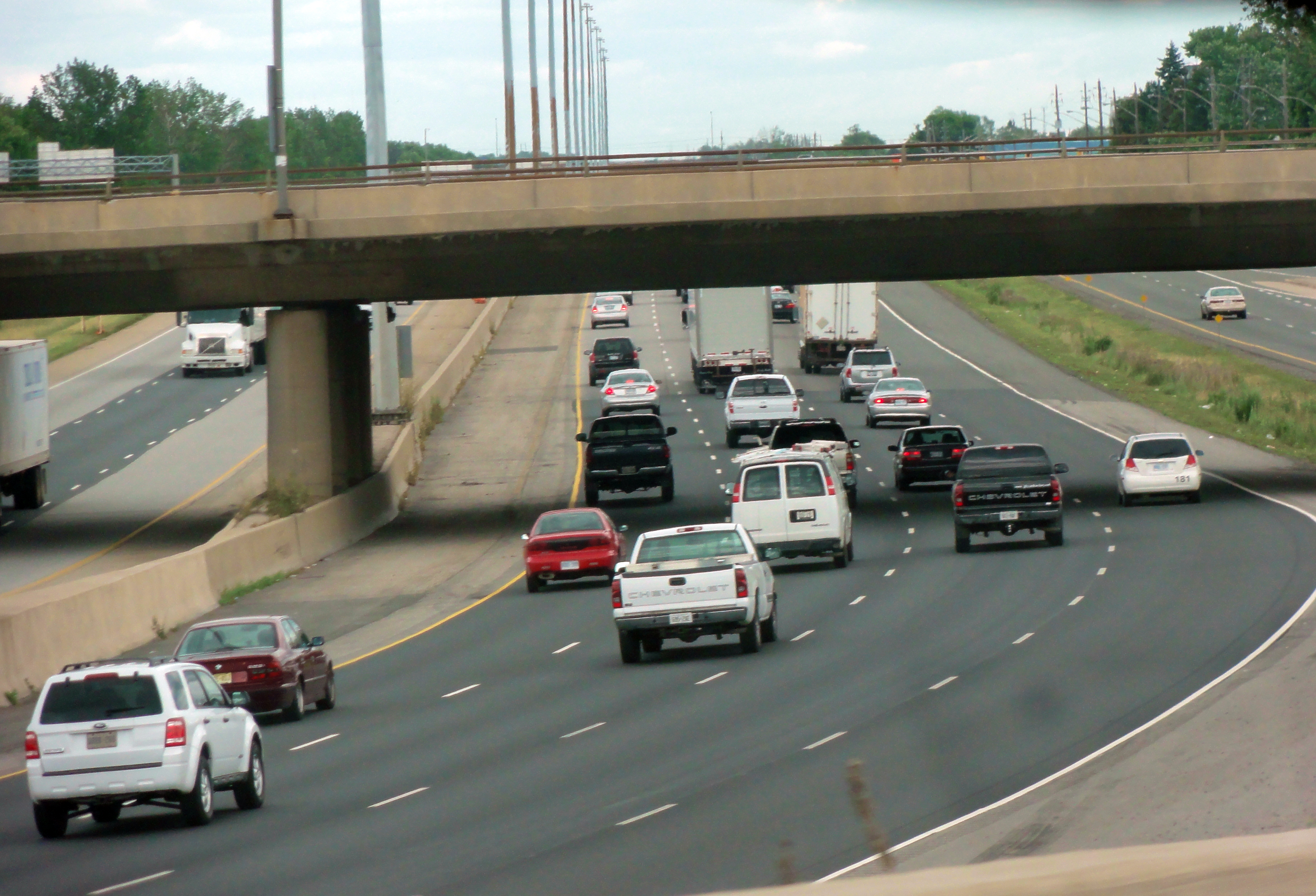 Looking at the Niagara bound QEW from the Red Hill Valley Parkway interchange.